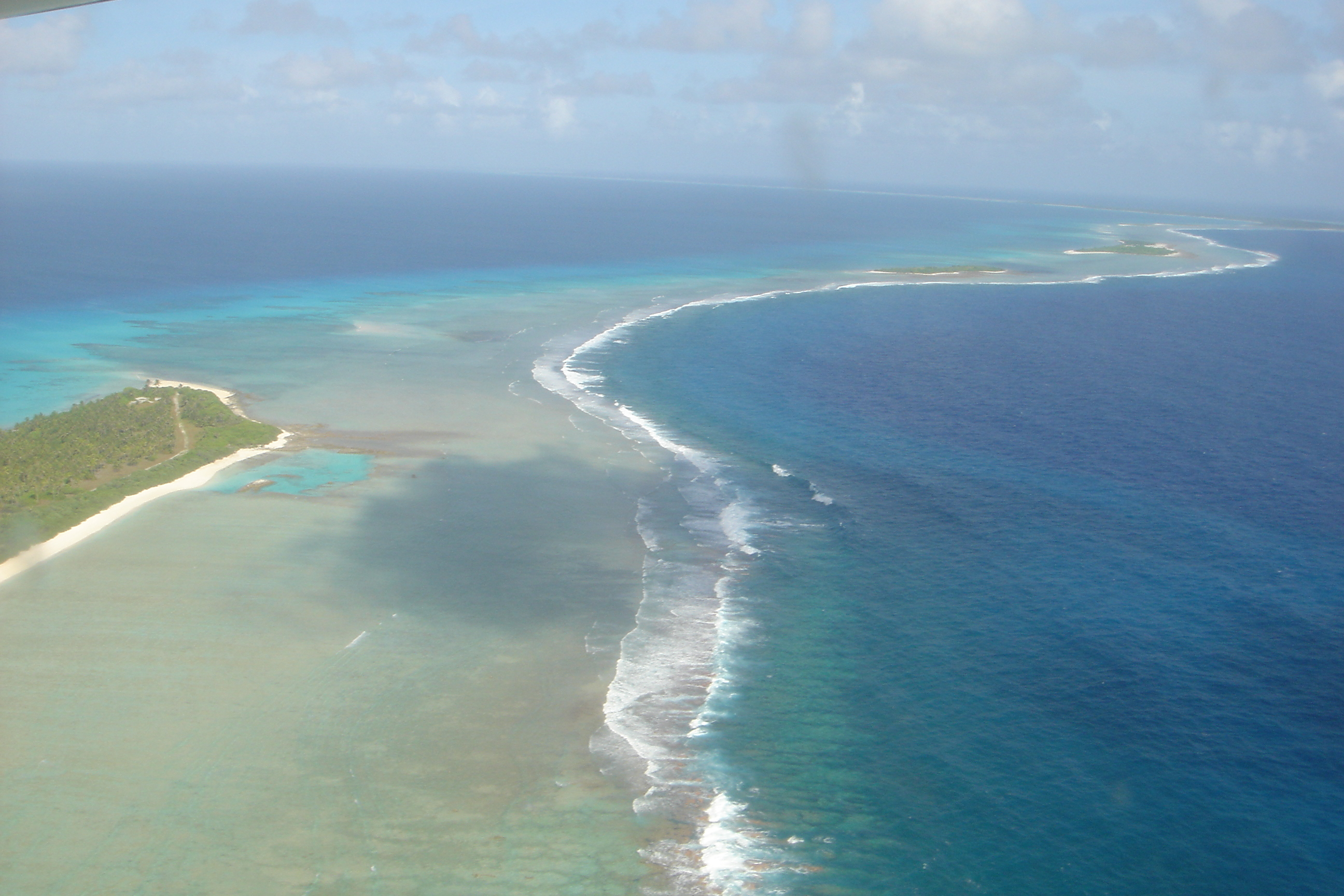 Bikini Atoll Nuclear Test Site (Marshall Islands)